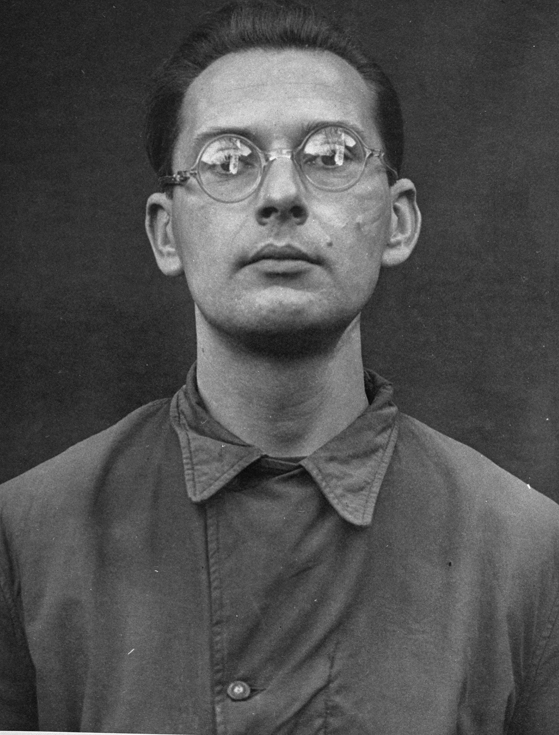 Portrait of Rudolf Brandt as a defendant in the Medical Case Trial at Nuremberg. [Photograph ##07335], Porträt von Rudolf Brandt als Angeklagter im Nürnberger Ärzteprozess. [Fotografie#07335]